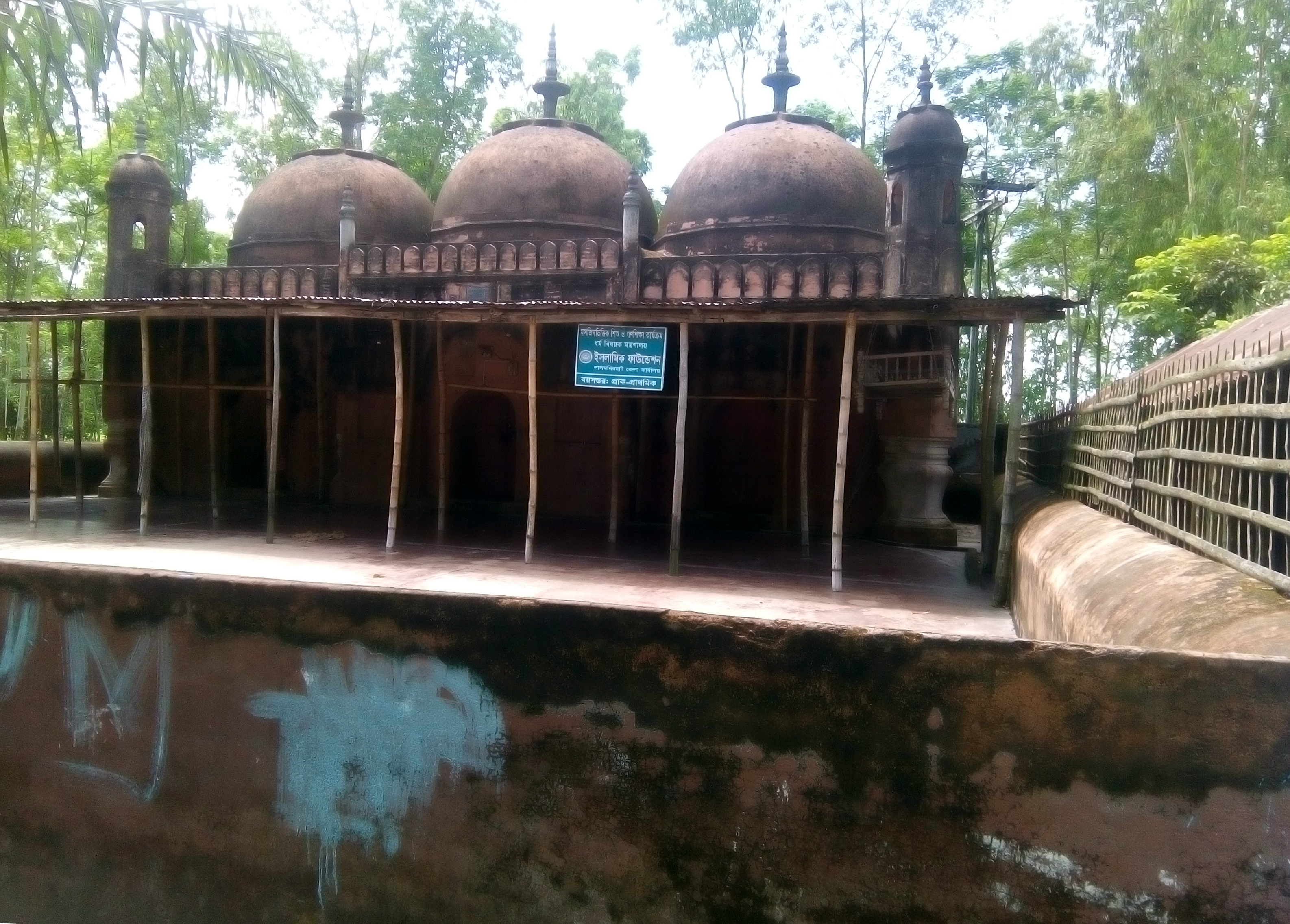 Nidaria Mosque